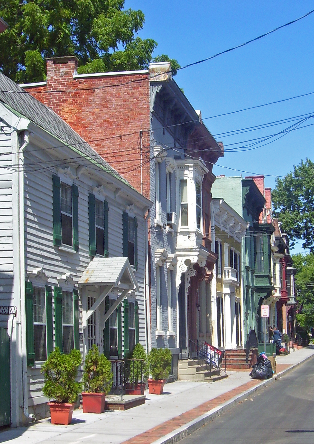 Houses on South Ferry Street in the Stockade Historic District, Schenectady, NY, USA